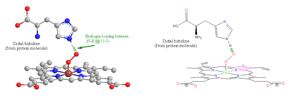 Showing the Oxygen stabilization with distal histidine's hydrogen bonding with the O2 molecule.